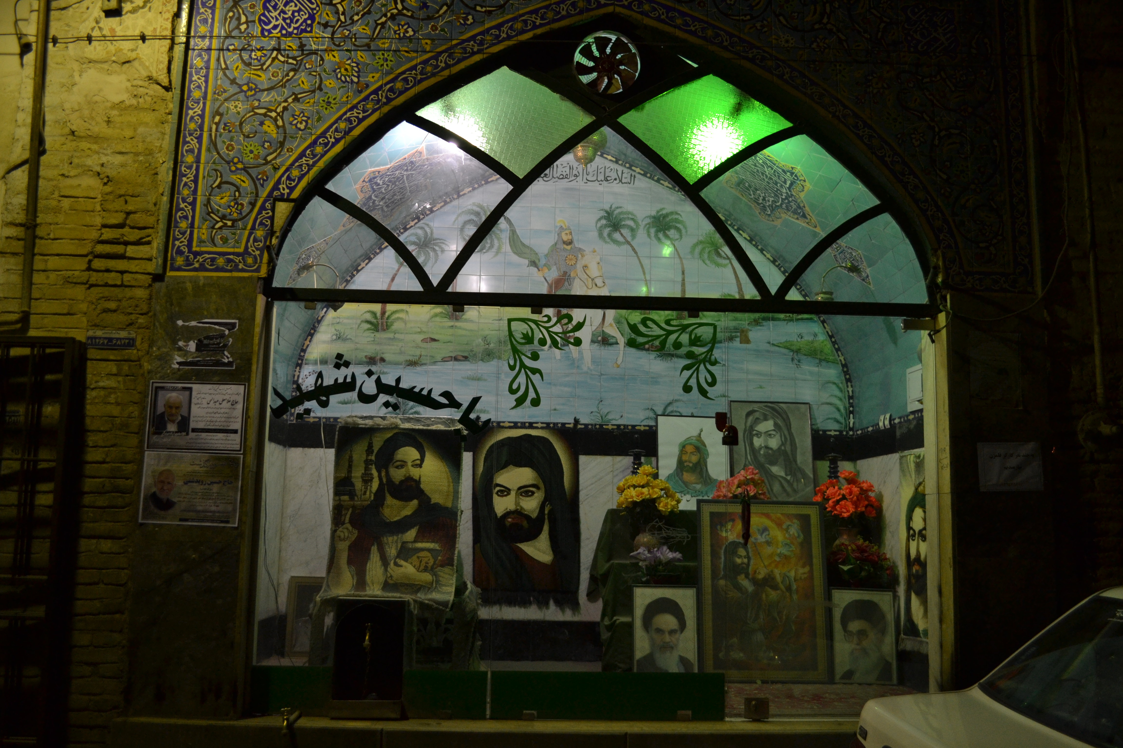 Pictures of the Shia Imams in the Isfahan Bazaar, with Khomeini and Khamenei displayed at the bottom.